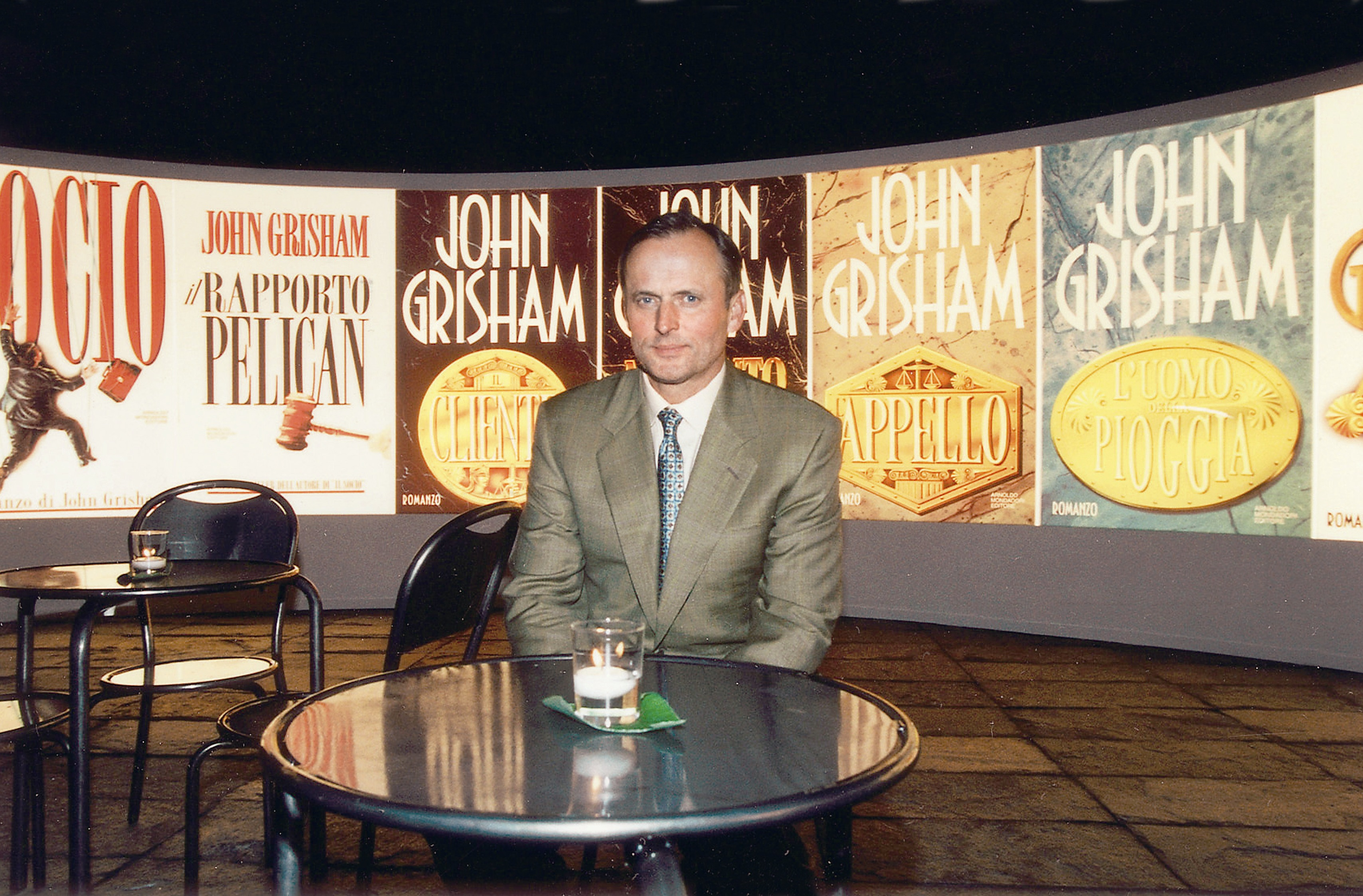 Novelist John Grisham.